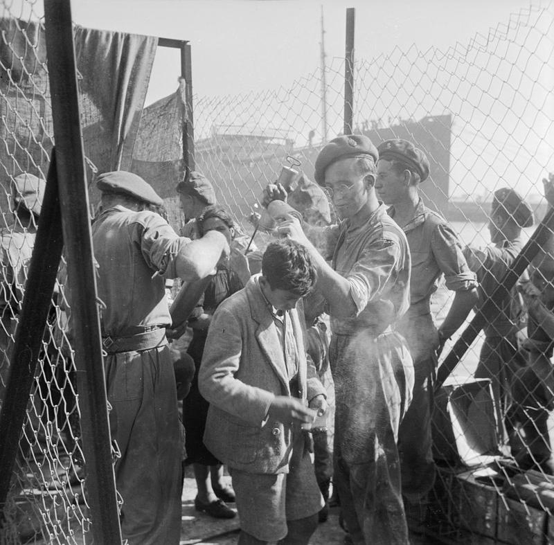 Jewish Immigrants Leave Haifa For Internment in Cyprus, August 1946 A young Jewish boy immigrant is sprayed with DDT as he is about to board a British troopship for the journey to Cyprus.